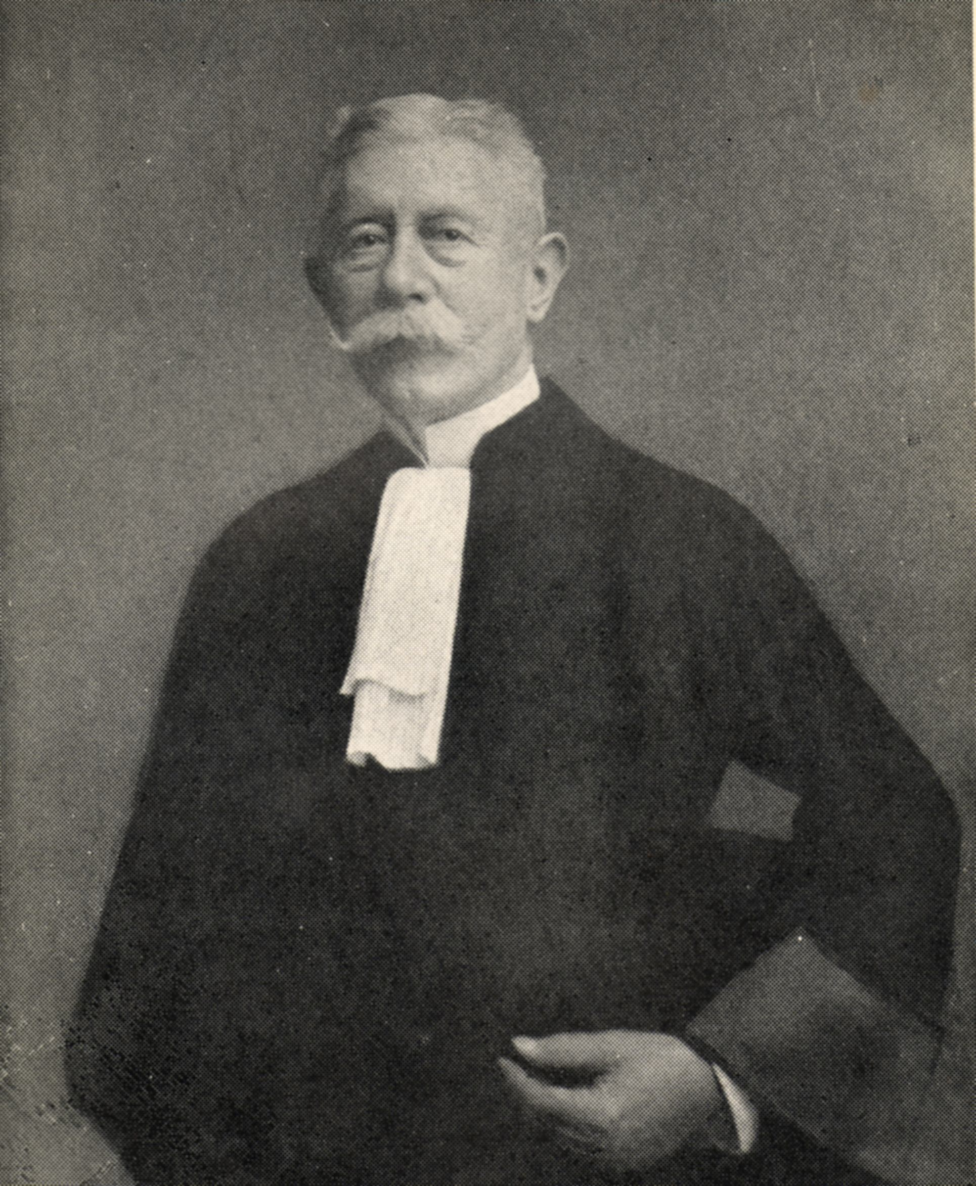 Alexandre Braun 1847-1935 Belgian lawyer and senator.